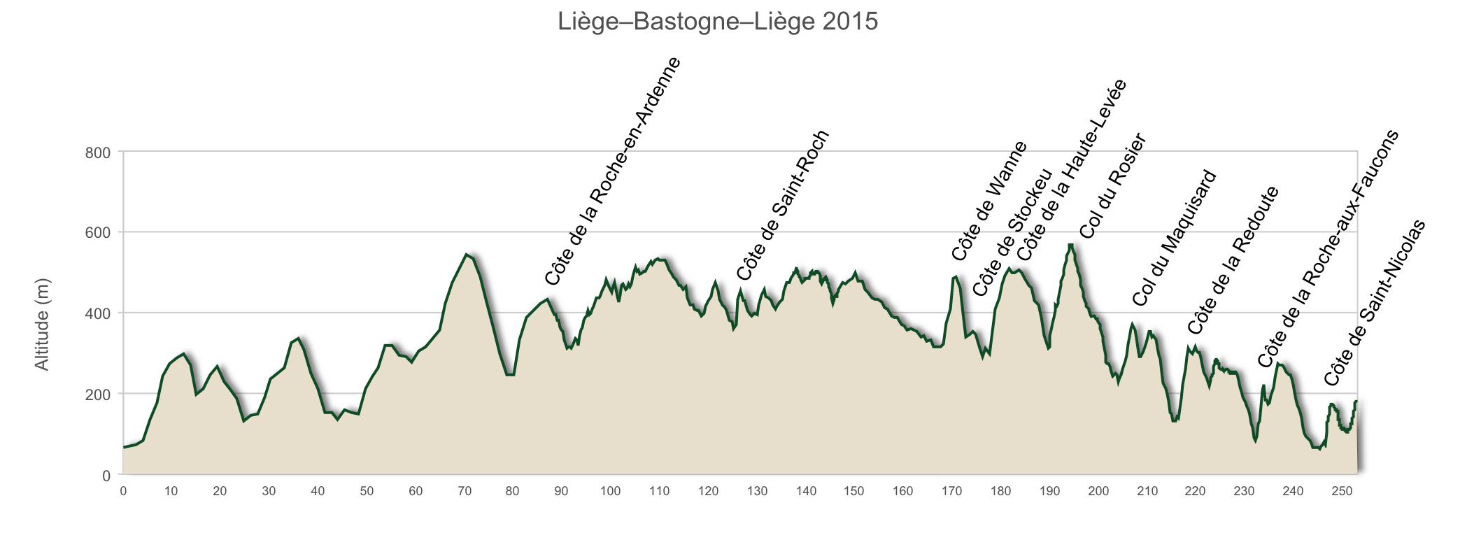 Profile of Liège-Bastogne-Liège 2015. Edit from the map of Relentlessly with name of the hills.